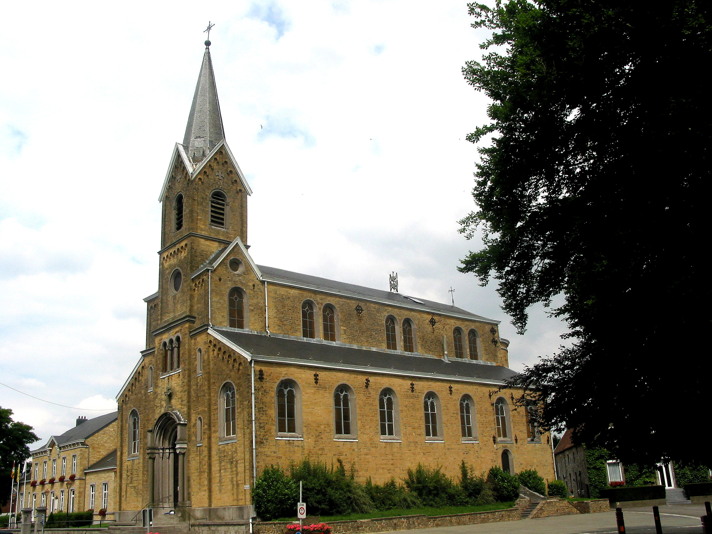 Vierset-Barse (Belgium), the St. Martin church (1858).